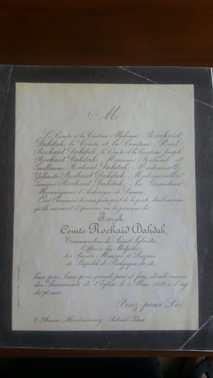 Announcement of the Passing Away of Count Rochaid Dahdah 1889